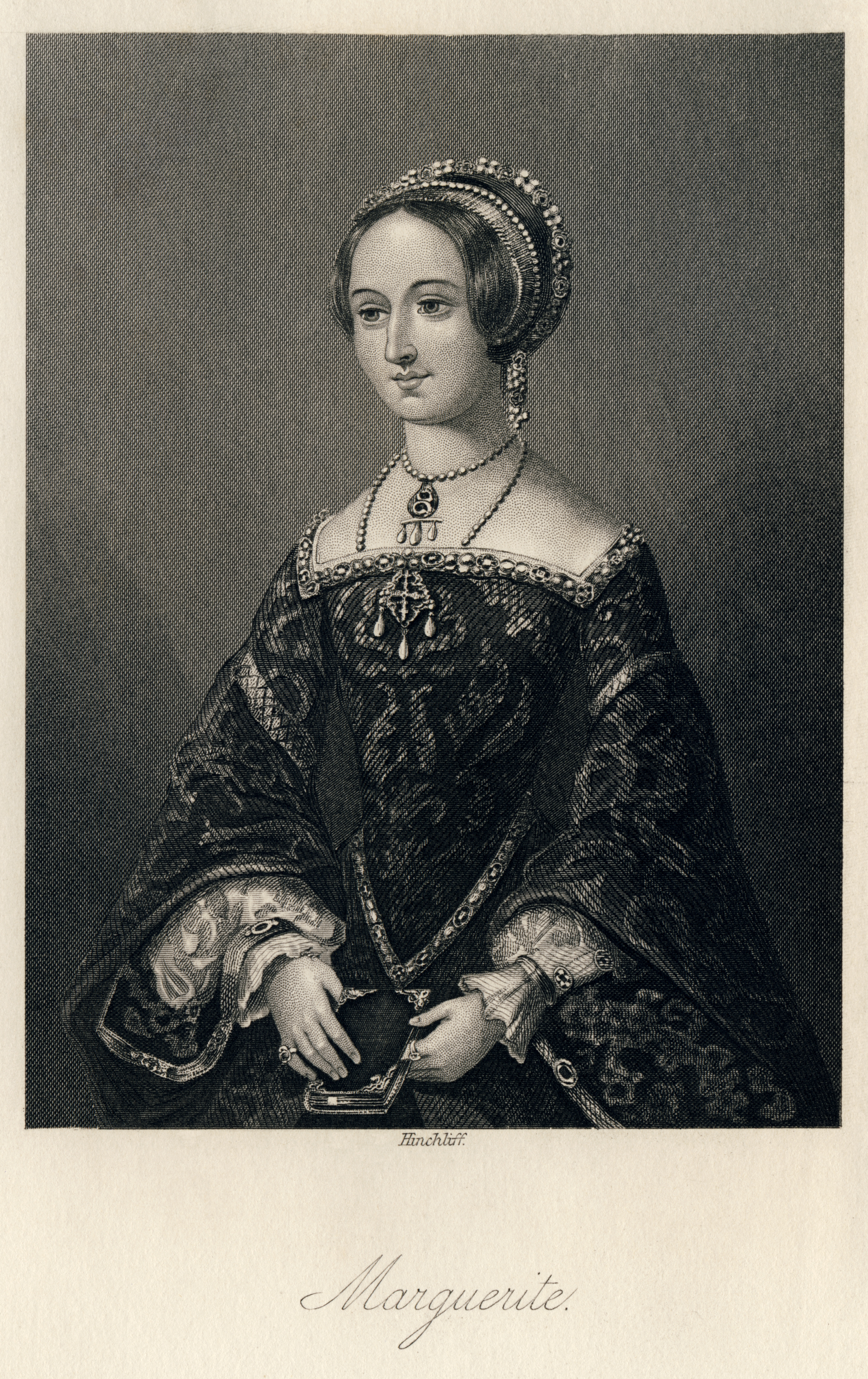 Marguerite, Queen of Navarre, in an engraving by Hinchliff. From an 1864 edition of the Heptameron